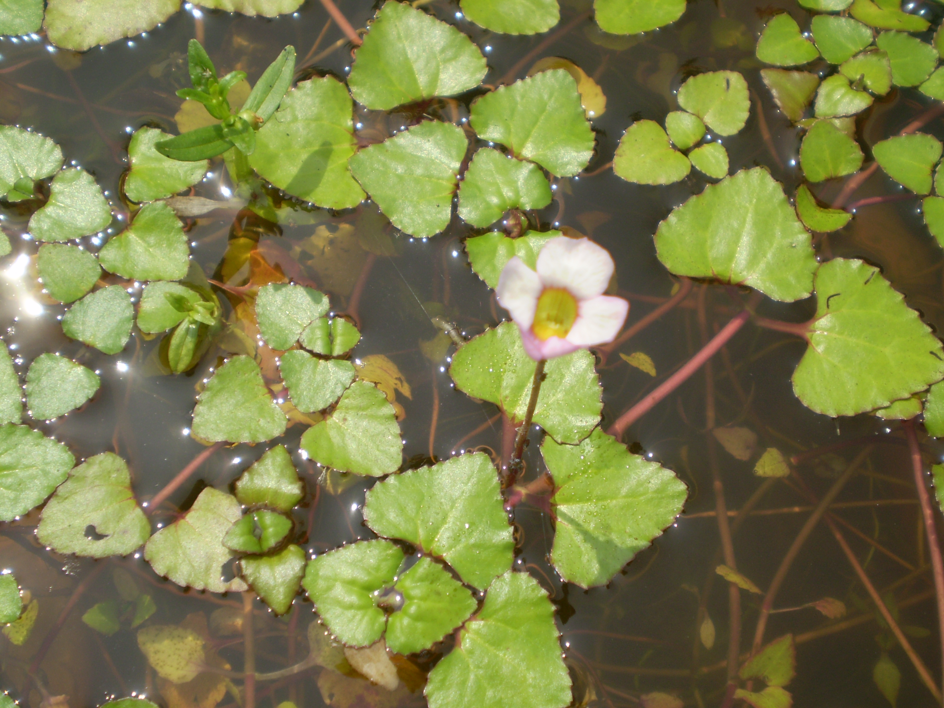 Trapella sinensis